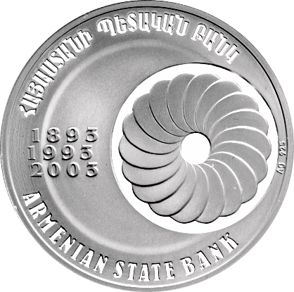 Commemorative coins of Armenia 2003 - 110-th year of establishment of the State Bank in Armenia - 100 AMD - Silver 925